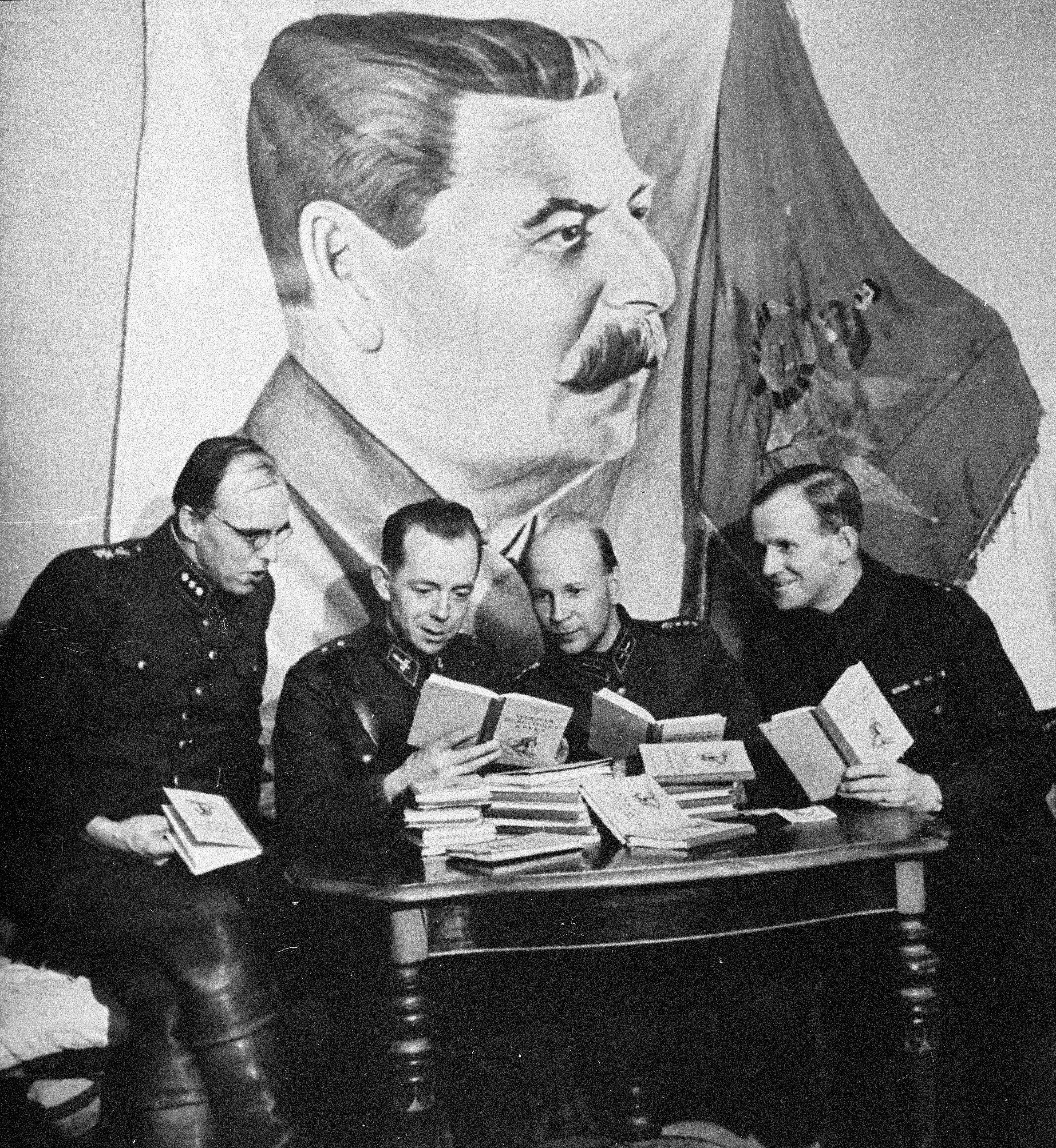 At Hyrynsalmi, Finnish officers are inspecting Soviet skiing manuals gained as loot from the Battle of Suomussalmi. Second from left is Hugo L. Mäkinen.